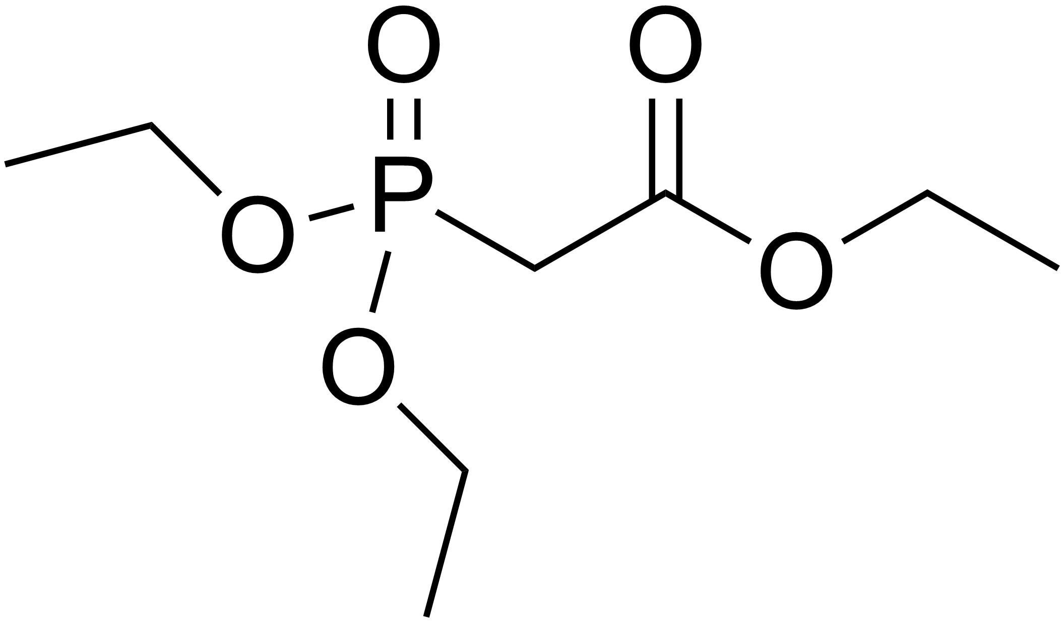 chemical structure of Triethylphosphonoacetate